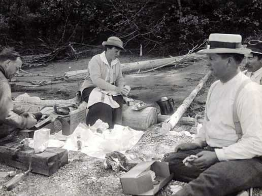 Mary Roberts Rinehart lunching after a morning's trouting on Flathead River, Glacier National Park, circa 1921